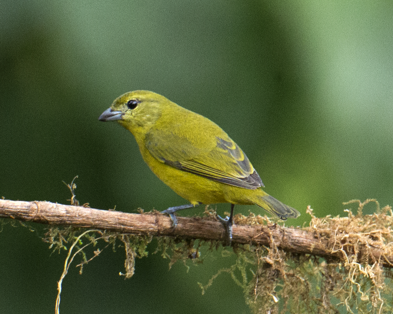 Thick-billed Euphonia Euphonia laniirostris Euphonia laniirostris hypoxantha Milpe, Ecuador 29th. July 2015 CF2P9384